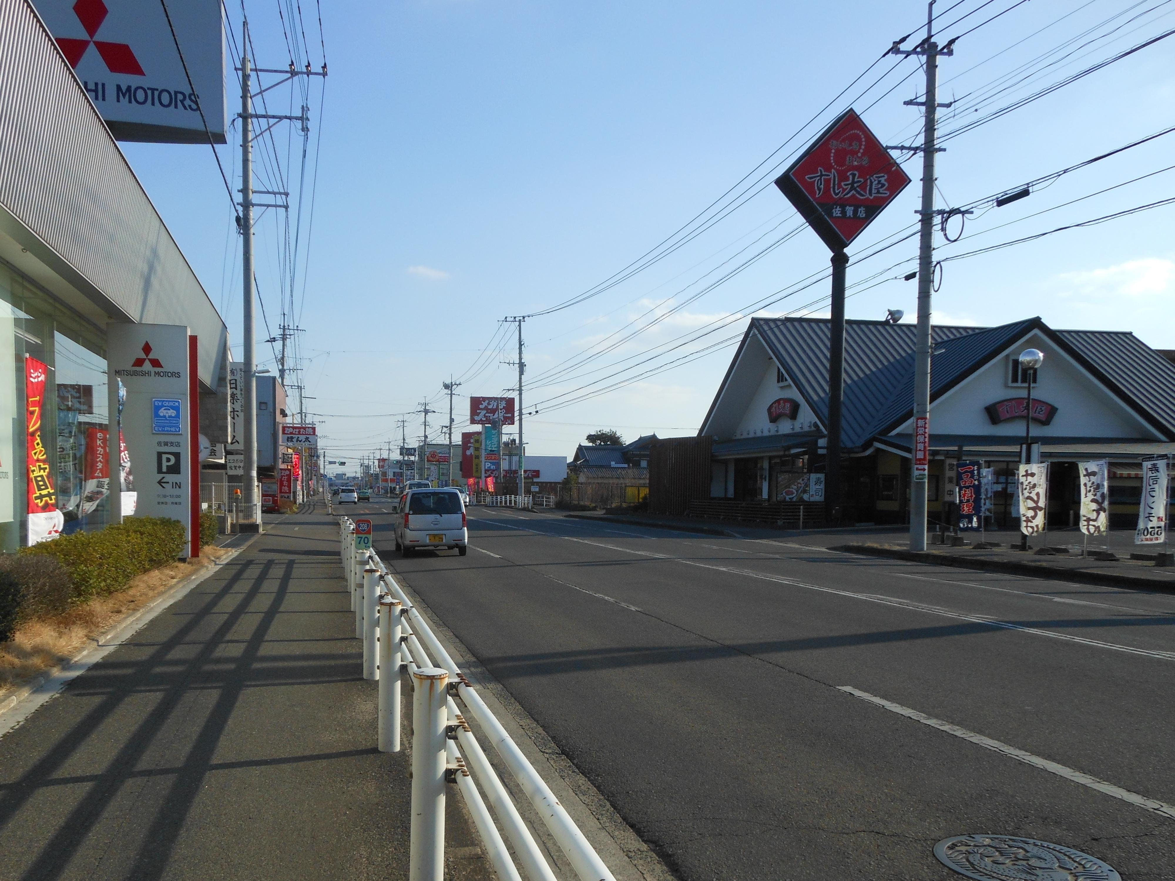 "Kanjō Nishidōri"("Seibu Kanjōsen") Street in Shin'ei-higashi, Saga City. It is Japan National Route 208.